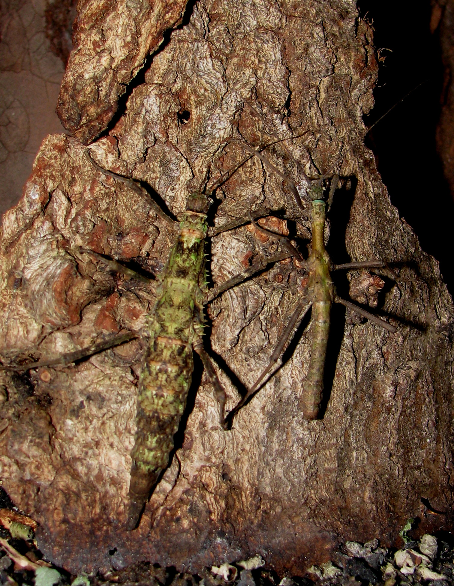 Brasidas smarensis Pair (male right)